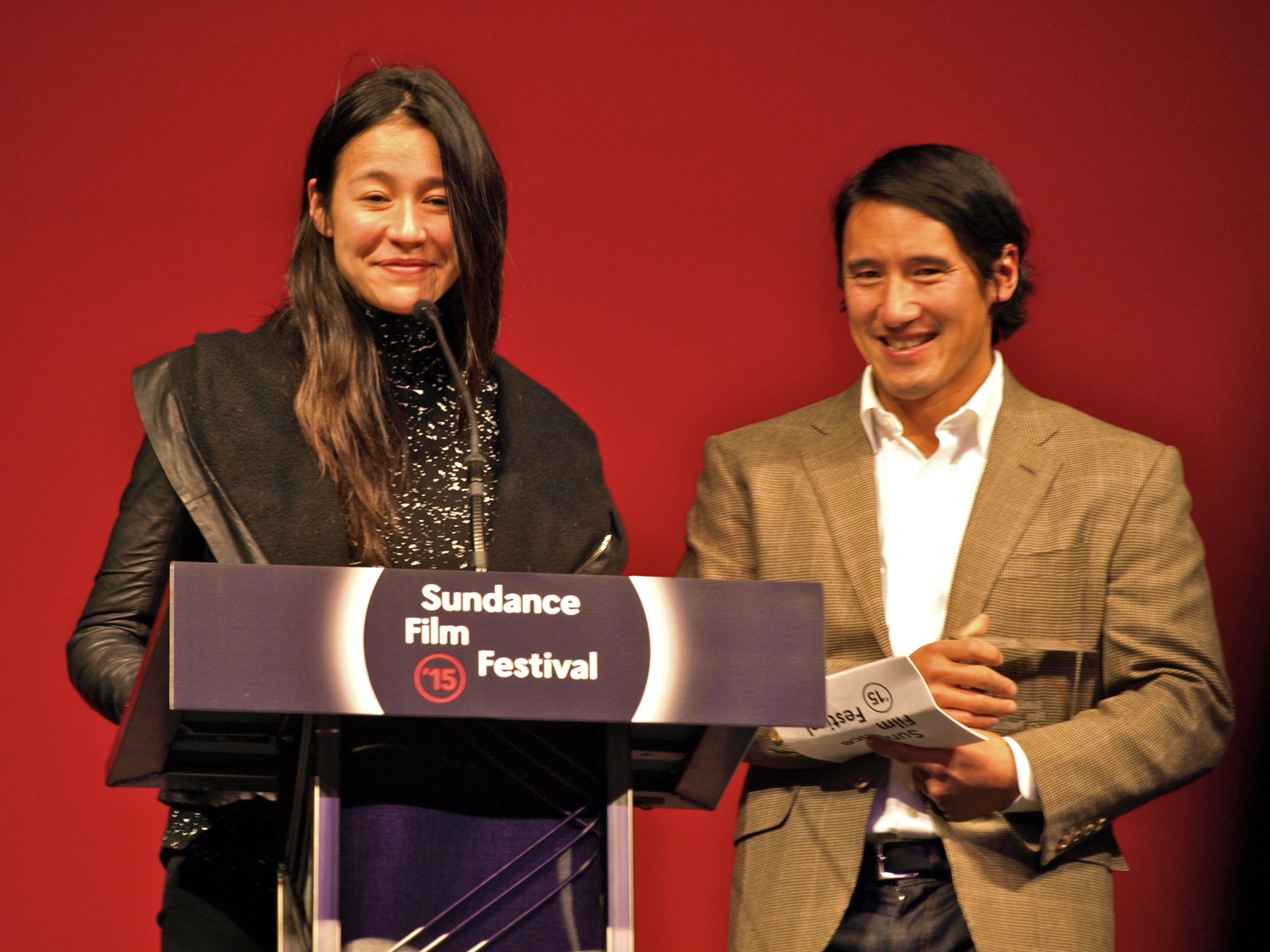 E. Chai Vasarhelyi and Jimmy Chin Winner of Audience Award: U.S. Documentary: Meru at Sundance 2015